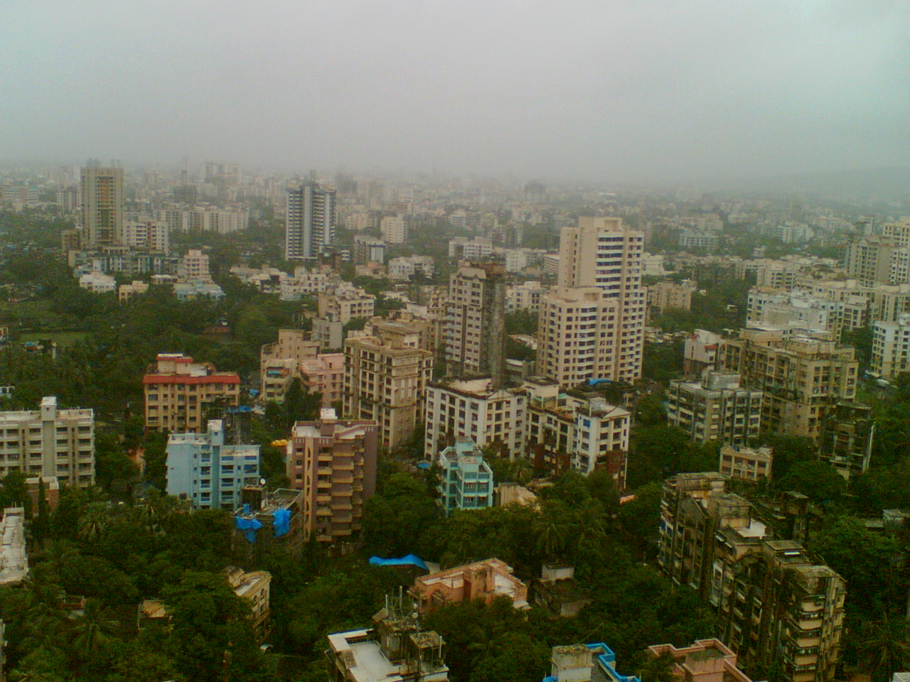 The image gives a Panoramic view of Orlem, a locality in the Malad suburb of Mumbai in India